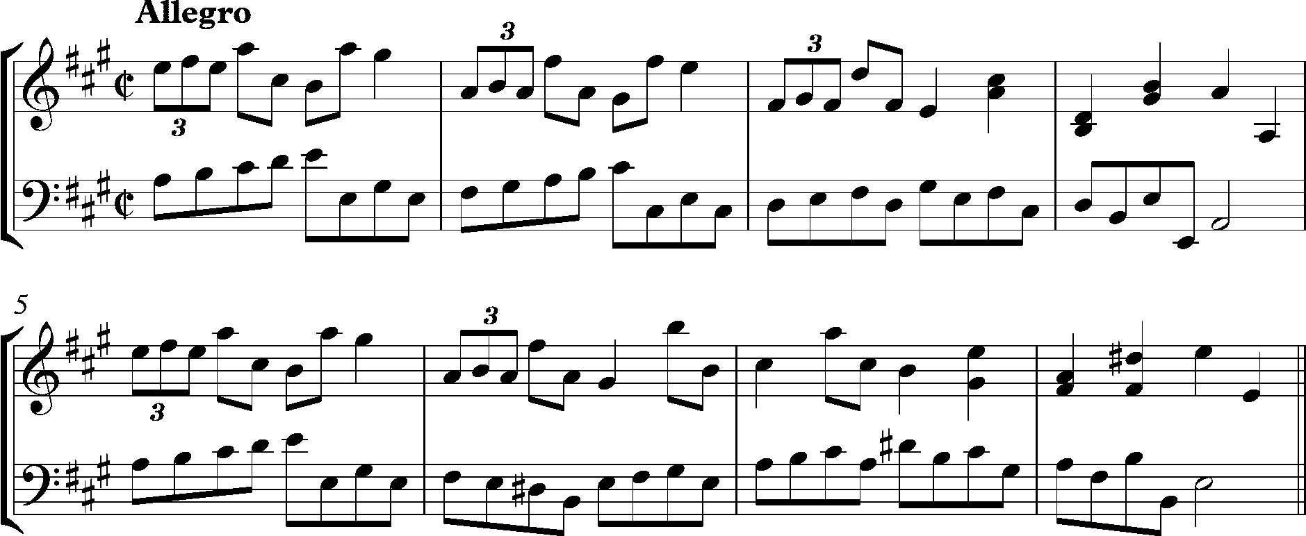 Corelli Violin Sonata Op 5 No 9, performing version by Geminiani, Tempo di Gavotta